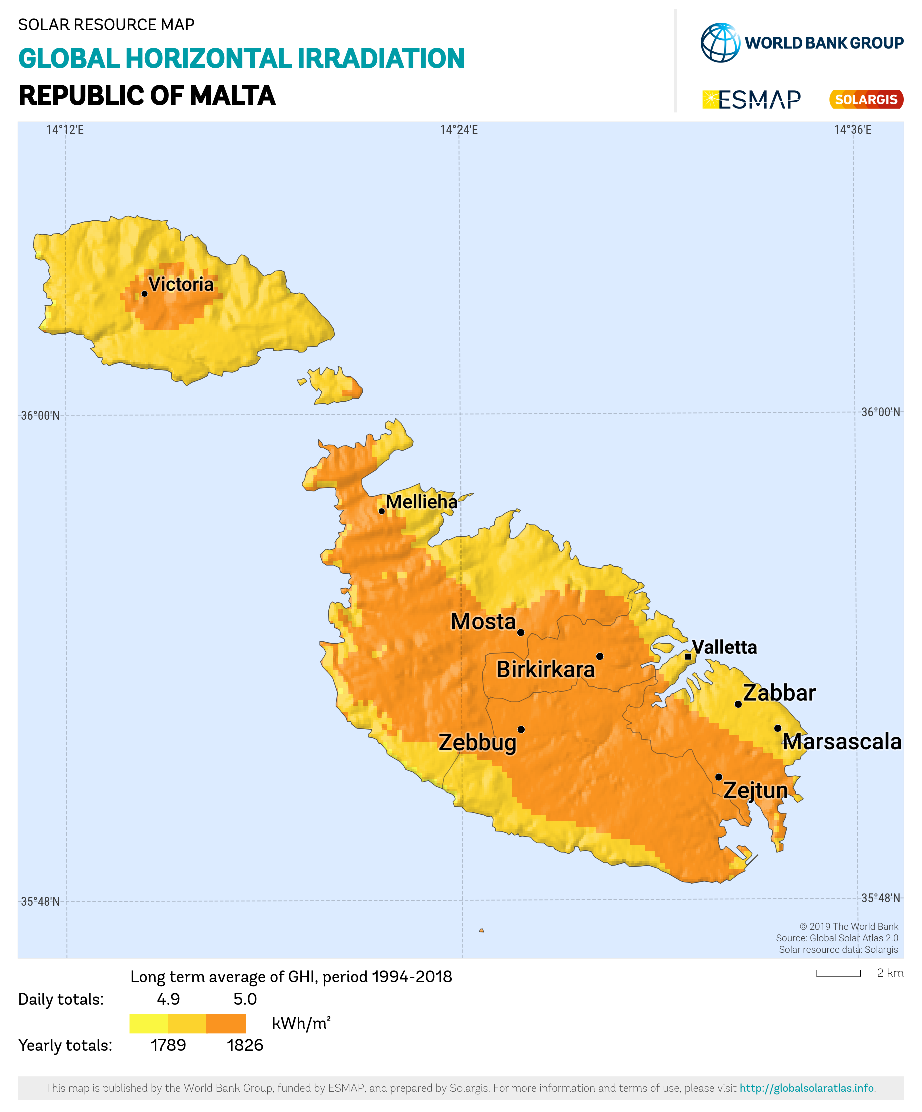 Global Horizontal Irradiation of Malta